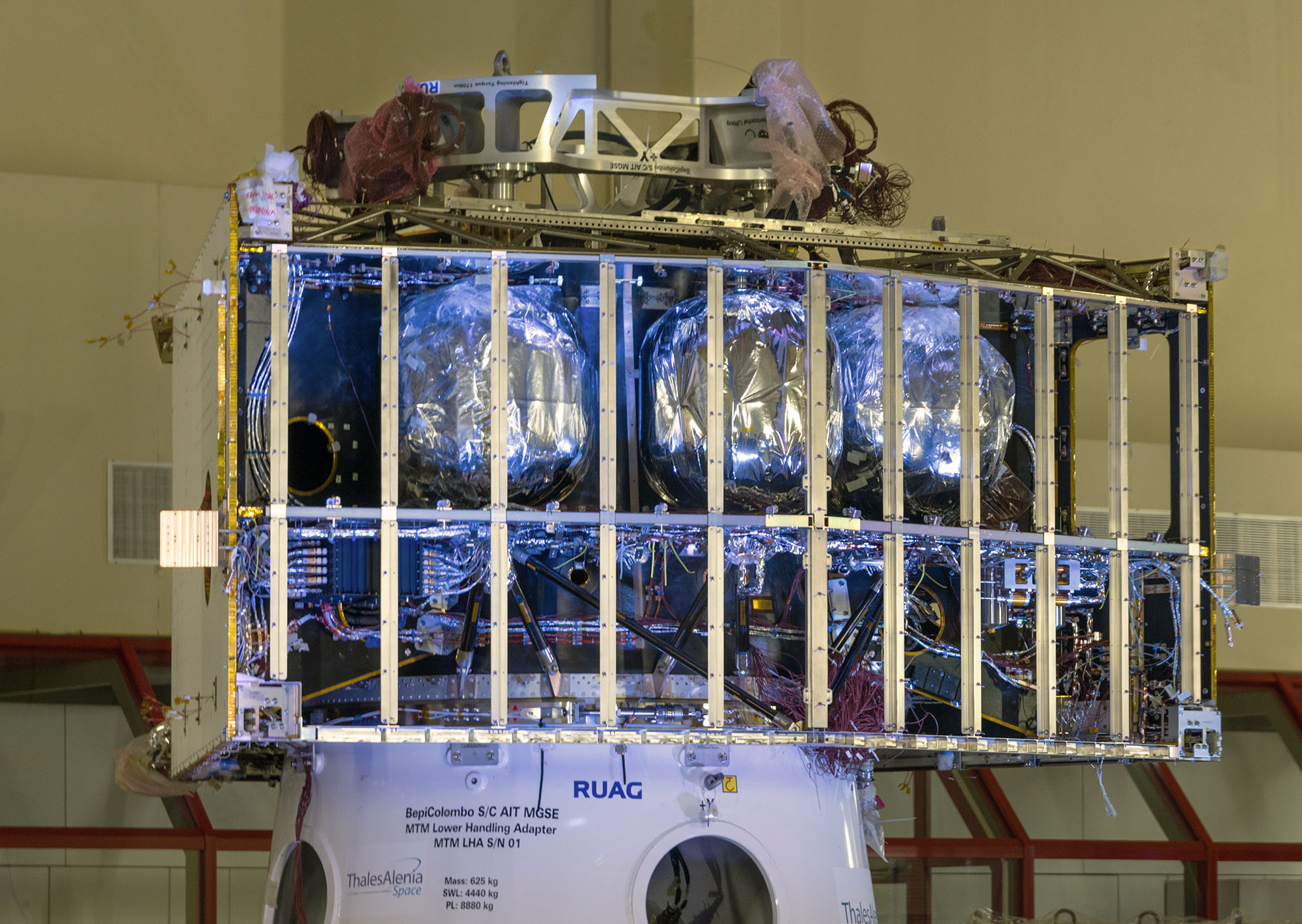 BepiColombo Mercury Transfer Module in ESTEC, before launch.